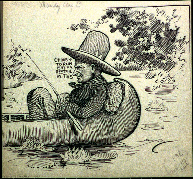 Cartoon by C. Berryman portraying President Coolidge after his famous statement "I do not choose to run"